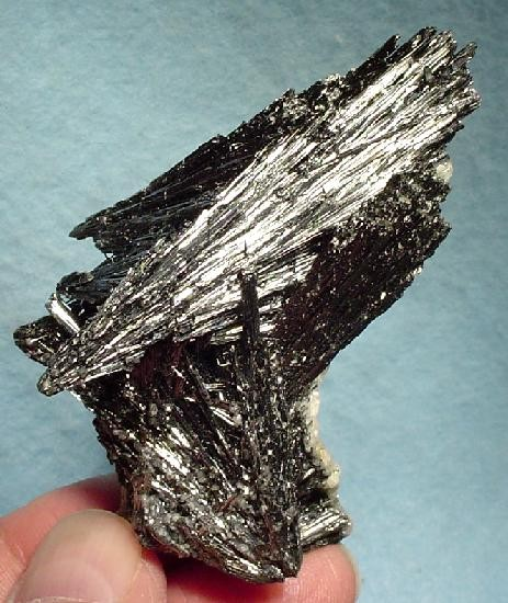 Stibnite Locality: McLaughlin Mine, Napa County, California, USA (Locality at ) Size: 7.0 x 5.2 x 3.8 cm. Splendent, intergrown, jackstraw stibnite clusters form a very fine specimen from the well-known and long defunct McLaughlin Mine of California. Ex. Paul Harter Collection.